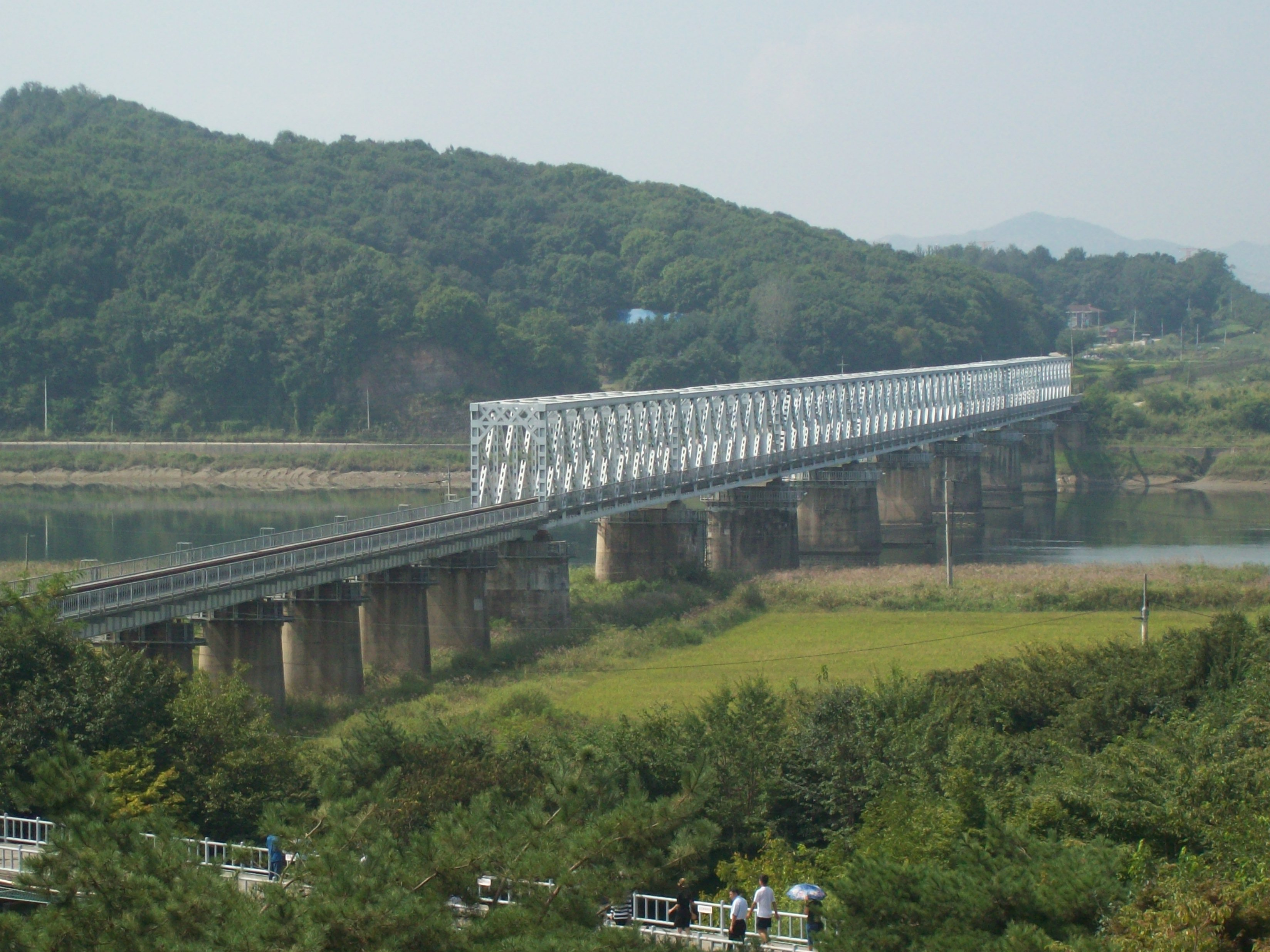 The Gyeongui Line crossing The Imjin River